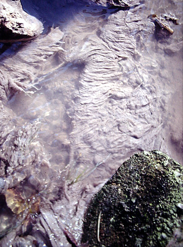 organic pollution of river Aa (north of France) from paper plants.